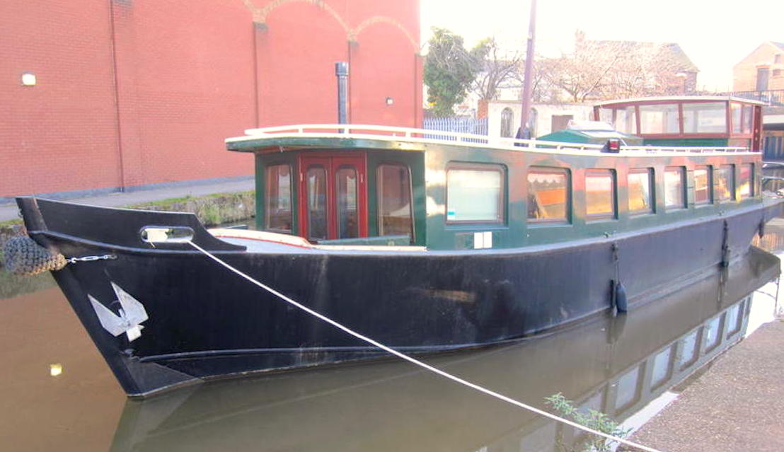 English wide-beam cruising barge "Cordelia" on the Trent & Mersey canal.